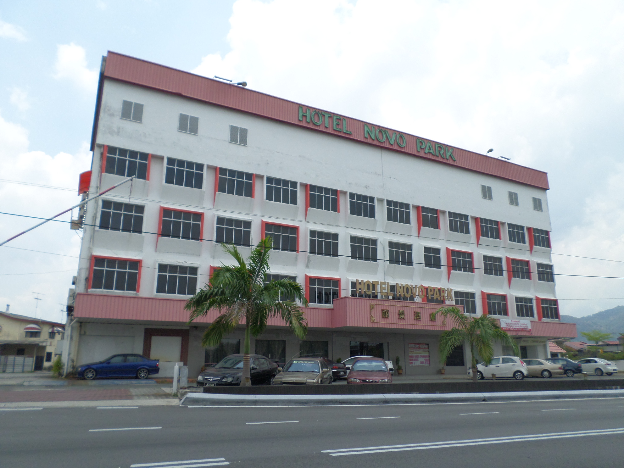 Novo Park Hotel, Batu Pahat, Johor, Malaysia